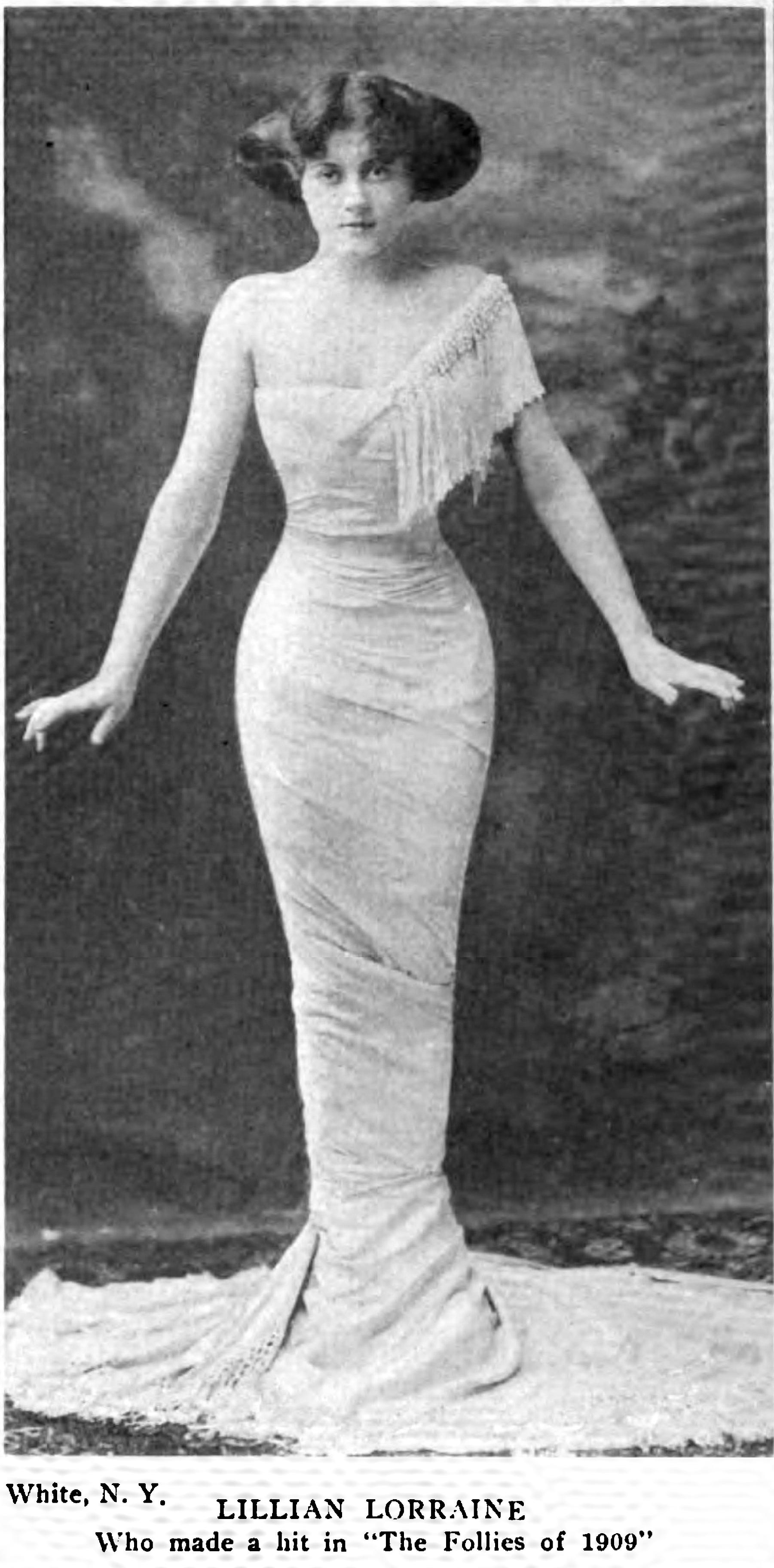 Actress Lillian Lorraine circa 1909